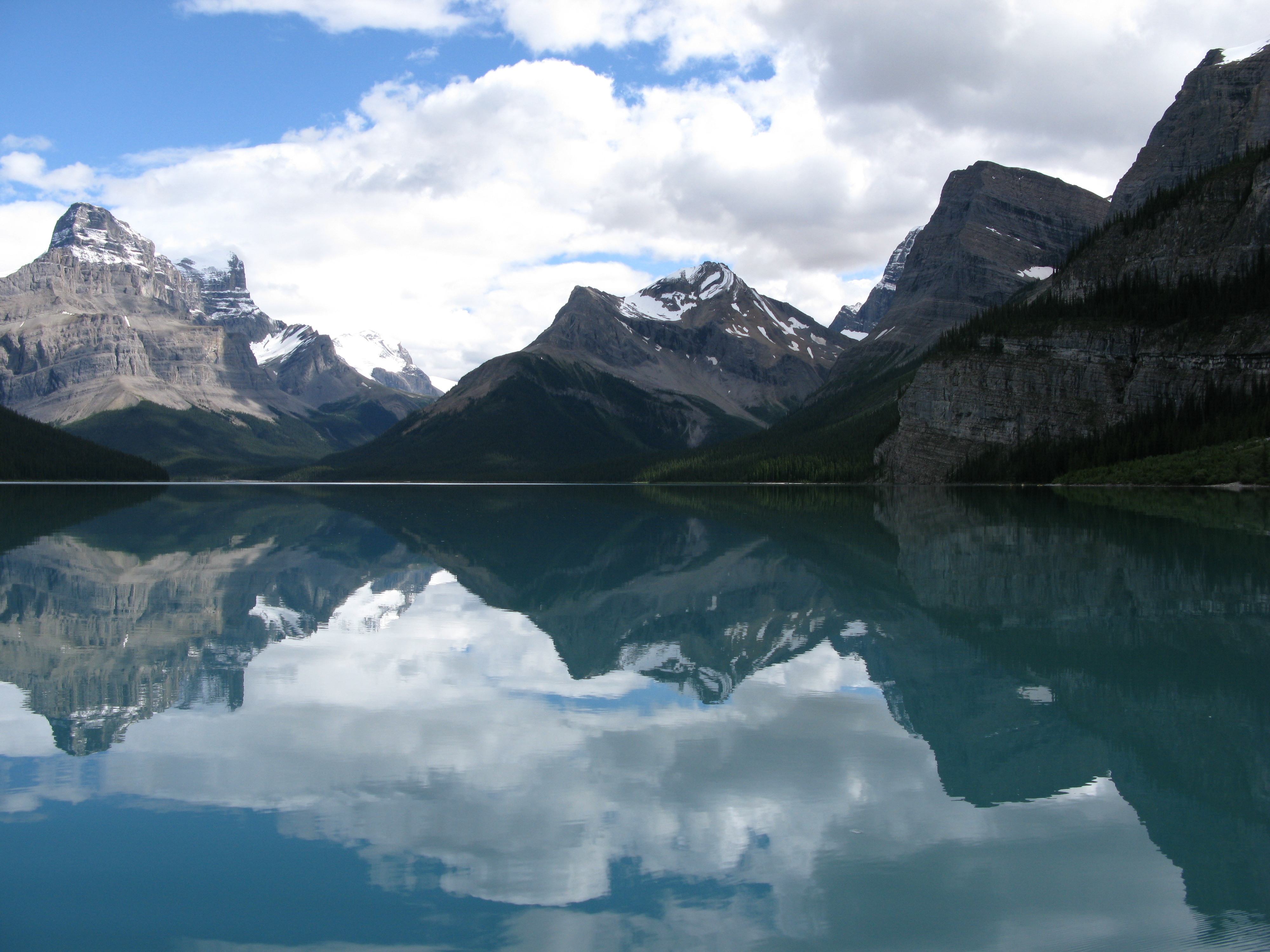 Maligne Lake reflection, Jasper National Park, Alberta, Canada